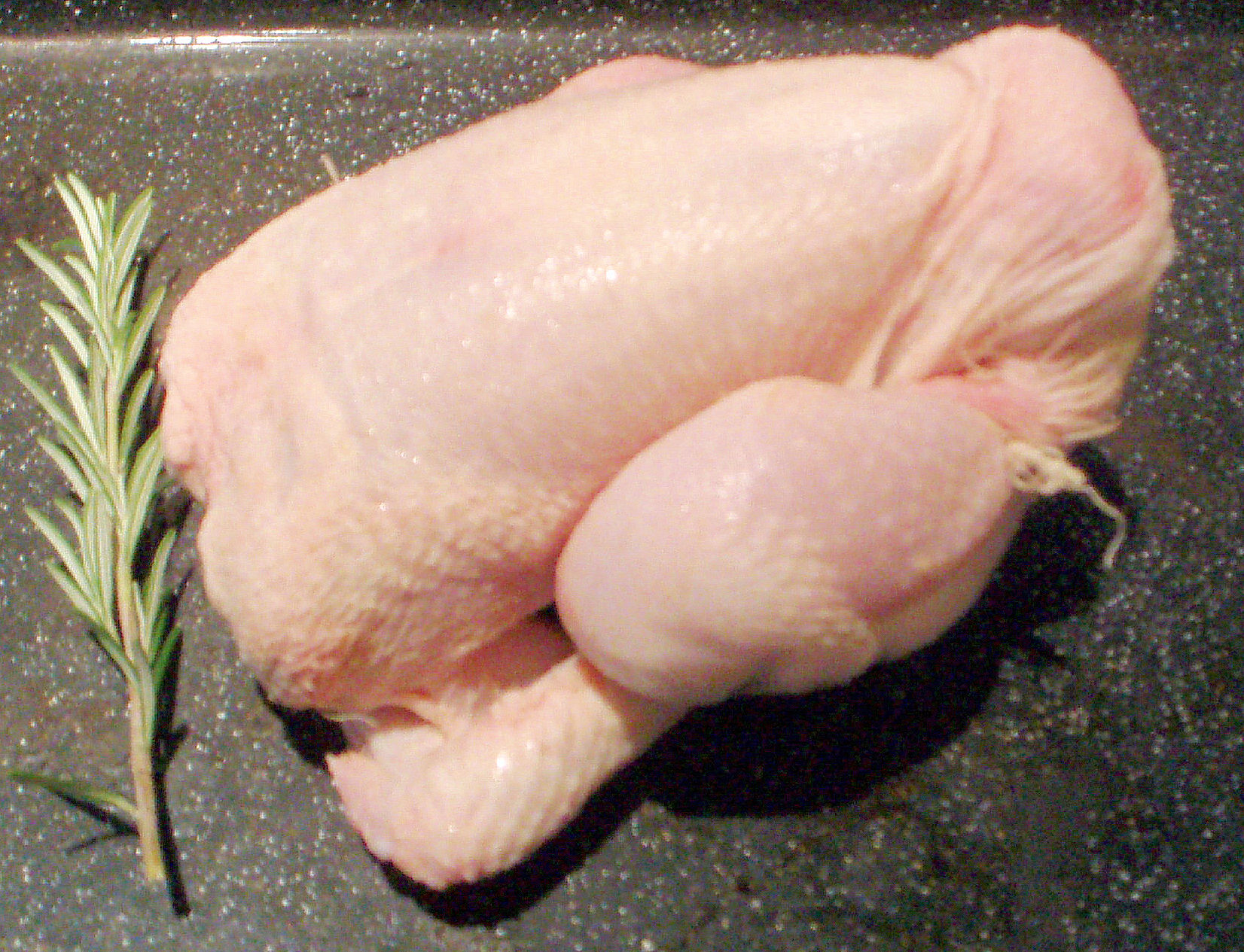 A poussin ready for the oven. Picture by R Neil Marshman (c) - see metadata